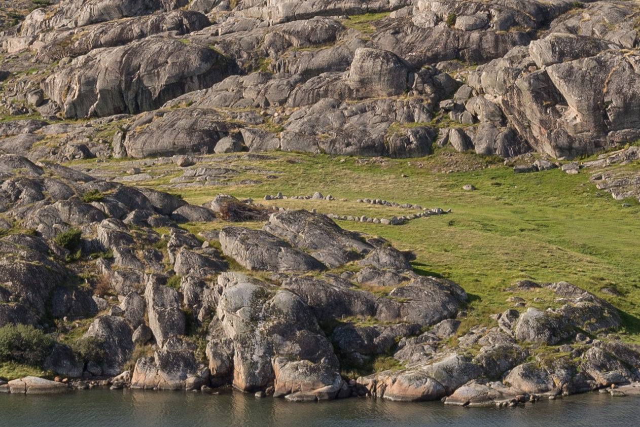 Cemetery, Rivö Island